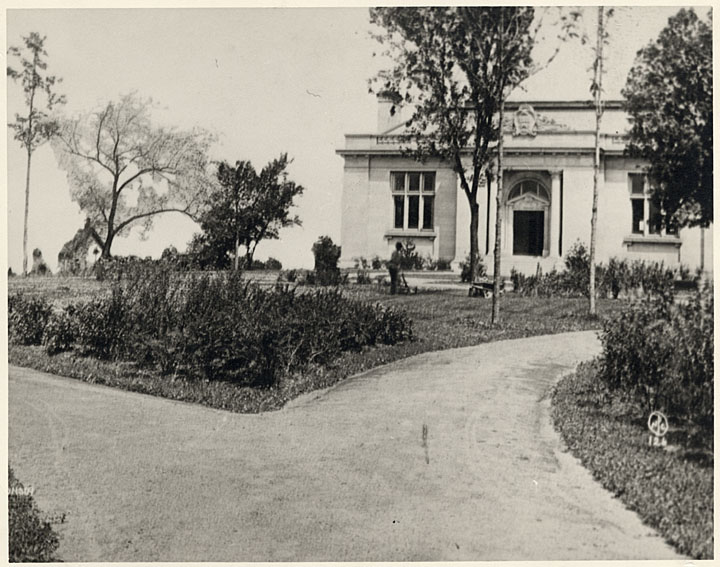 B&W image of Marathon County Library. The photograph is not readily available to the public anymore. This is the only representation of the building from this time period.